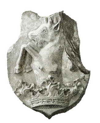 Stema familiei nobile Silaghi